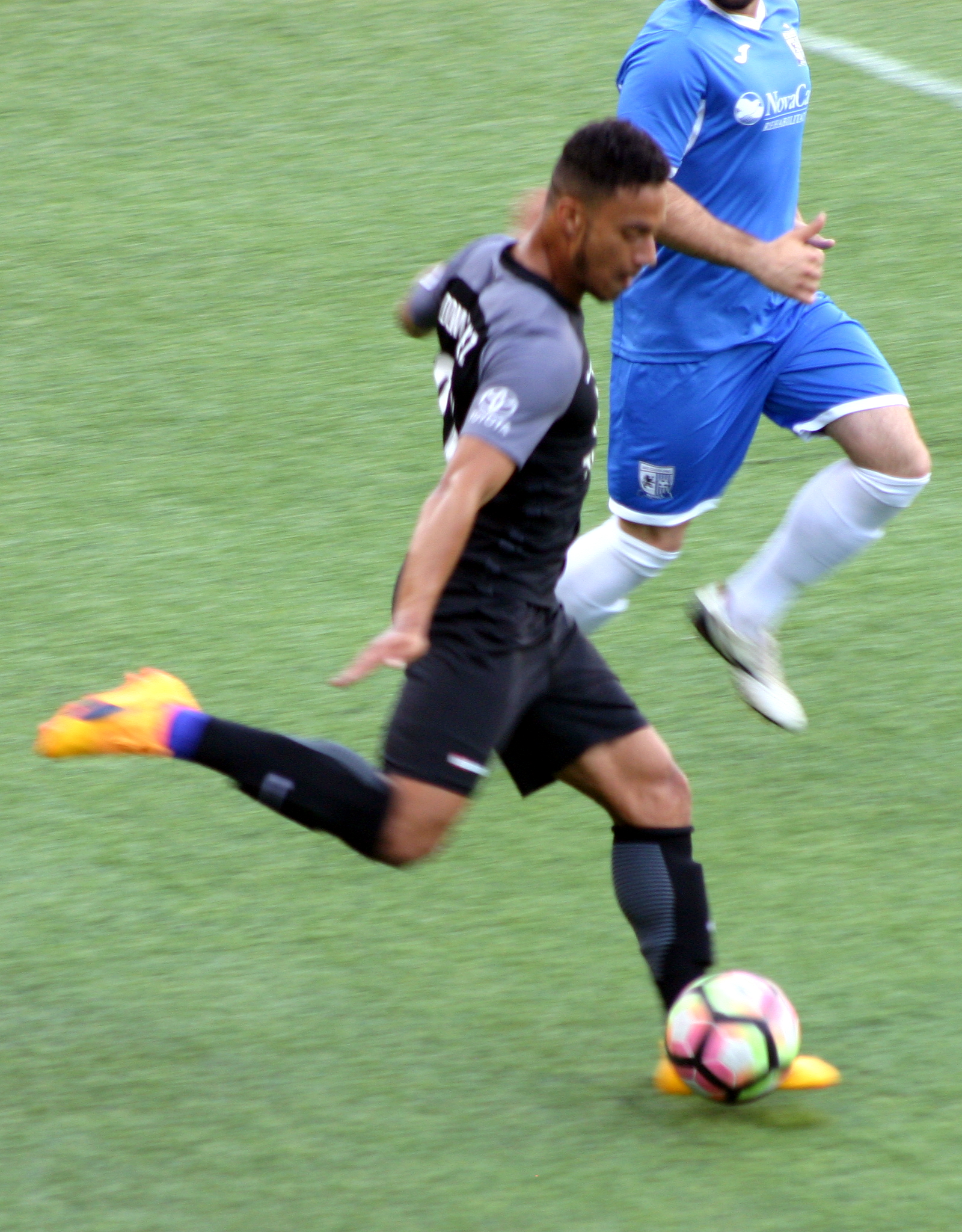 Marco Dominguez playing for FC Cincinnati of the United Soccer League in a US Open Cup game versus AFC Cleveland on May 17, 2017